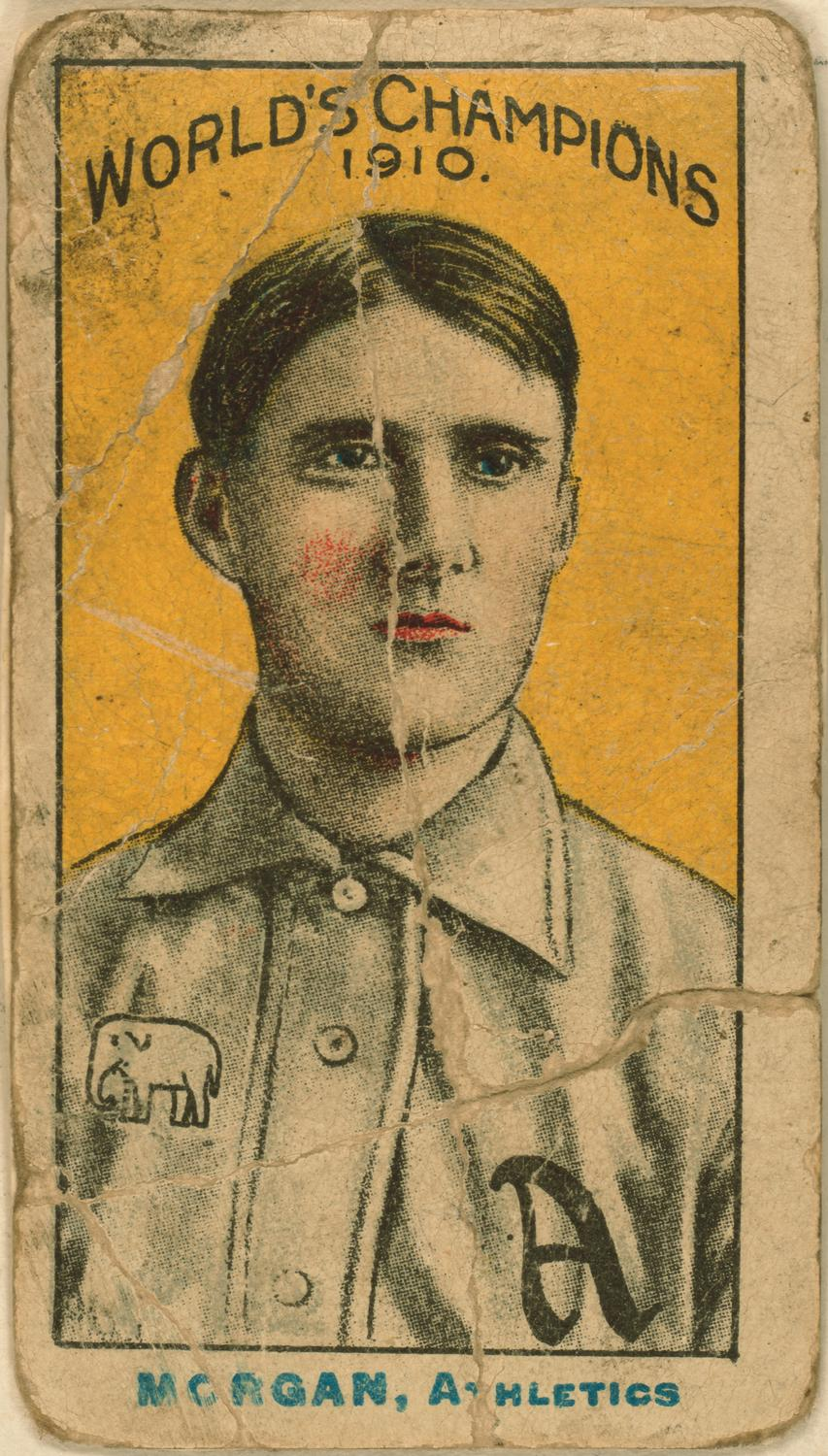 Baseball card of Harry Richard "Cy" Morgan